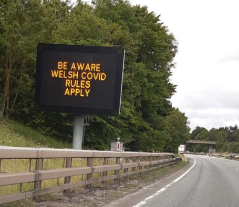 A road sign on the A55 on the Welsh side of the Wales-England border, near Queensferry warning: 'BE AWARE: WELSH COVID RULES APPLY'. Wales had different rules and laws to England, and these warnings referred to the fact that no one from England was allowed to visit wales unless the journey was 'essential'. Fines of up to £1,000 were imposed on people visiting their 2nd homes, beaches or mountain walking, with Police blocks on the border for months on end.